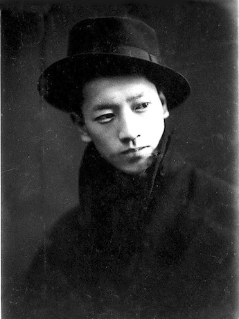 Photo of Nonagase